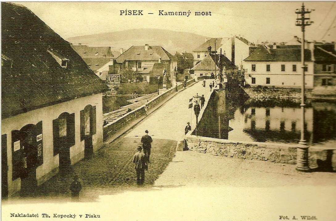 Stone Bridge in Písek,Czech Republic, before 1905